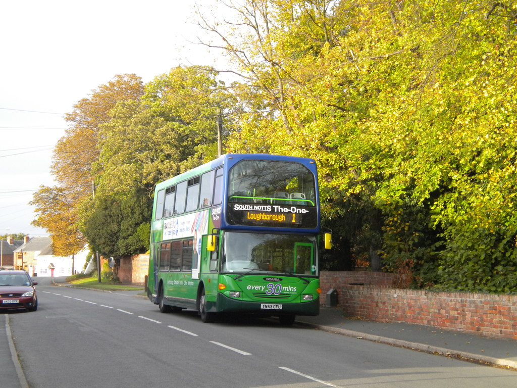 Waiting for a relief. A bus operating on route 1, the old South Notts route from Nottingham to Loughborough, waits for a relief driver opposite Gotham bus garage (out of frame to the left). South Notts was taken over by Nottingham City Transport in... more